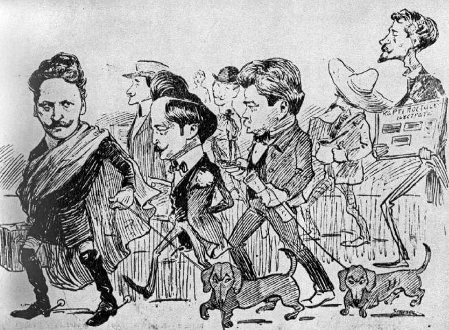 Caricature group portrait of the Romanian visual artists who founded the Tinerimea Artistică salon. From left: Arthur Verona, Nicolae Grant, Kimon Loghi, George Demetrescu Mirea, Friedrich Storck, Gheorghe Petraşcu, Ştefan Popescu. Originally published in the satirical magazine Zeflemeaua, March 23, 1903.